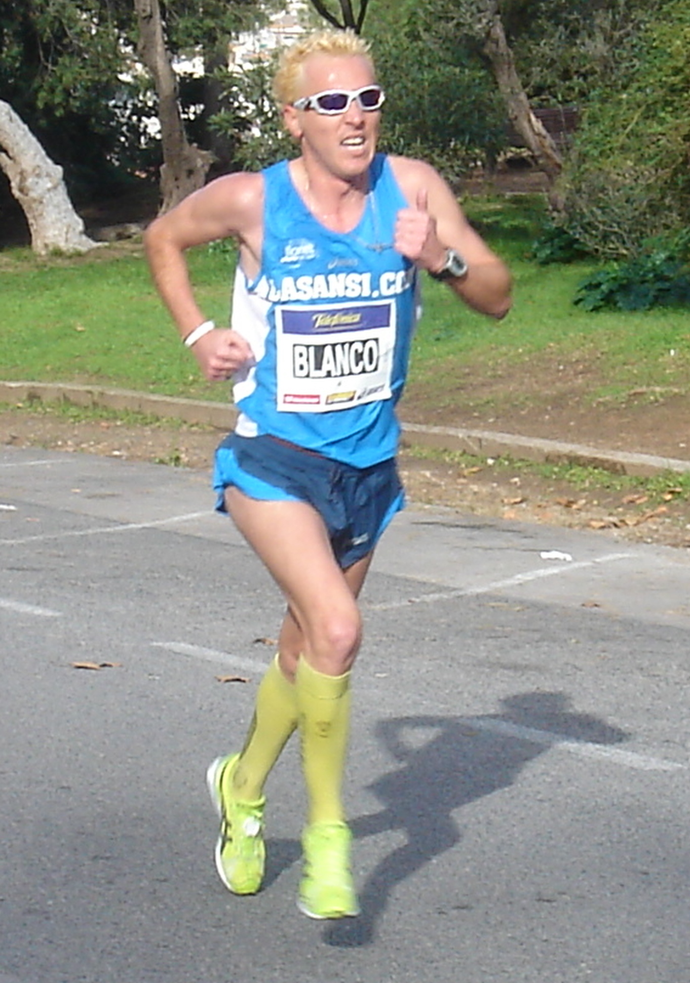 José Luis Blanco disputando la carrera Jean Bouin 2008